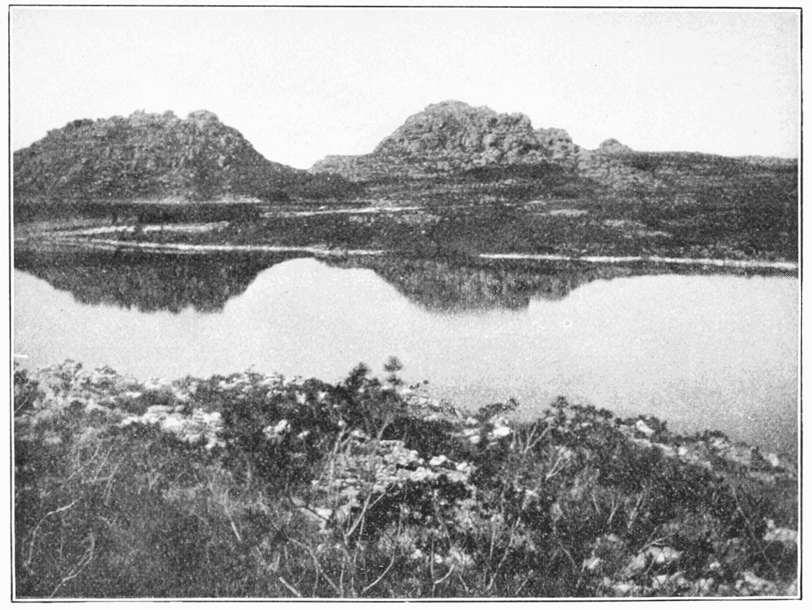 Table mountain kopjes and reservoirs